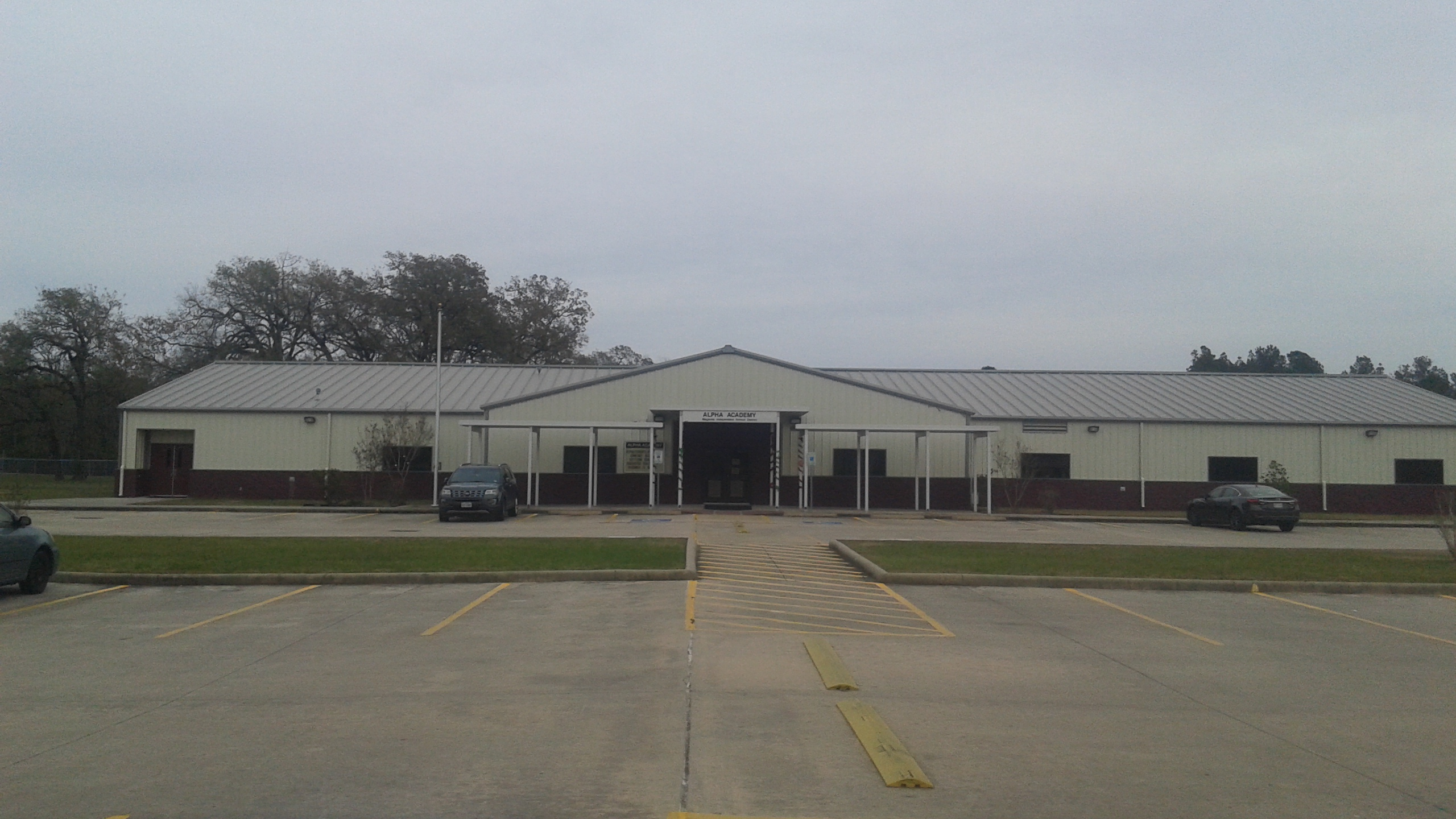 ALPHA Academy, an alternative high school for Magnolia ISD in Magnolia, Texas.